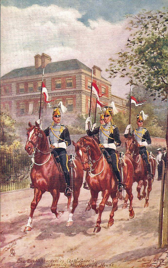 A Tuck's Oilette by the famous military painter Harry Payne with assistance from his brother Arthur, first published in 1911. The reverse of the postcard is very informative. "21st Lancers. The regiment of cavalry which may be stationed at Hounslow supplies a squadron for duty at Hampton Court, and a "picquet", consisting of one corporal and four men, for duty as despatch orderlies between the War Office, the Horse Guards and other Government Offices. The troopers for this are specially selected for smartness and appearance". The troopers are passing Marlborough House along the Horse ride in The Mall.